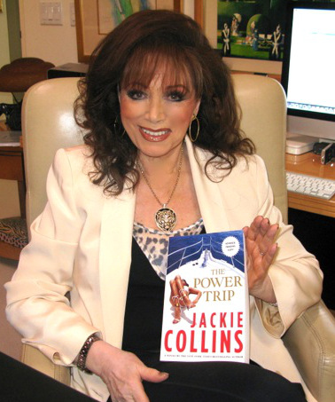 Jackie Collins releases The Power Trip - 2013